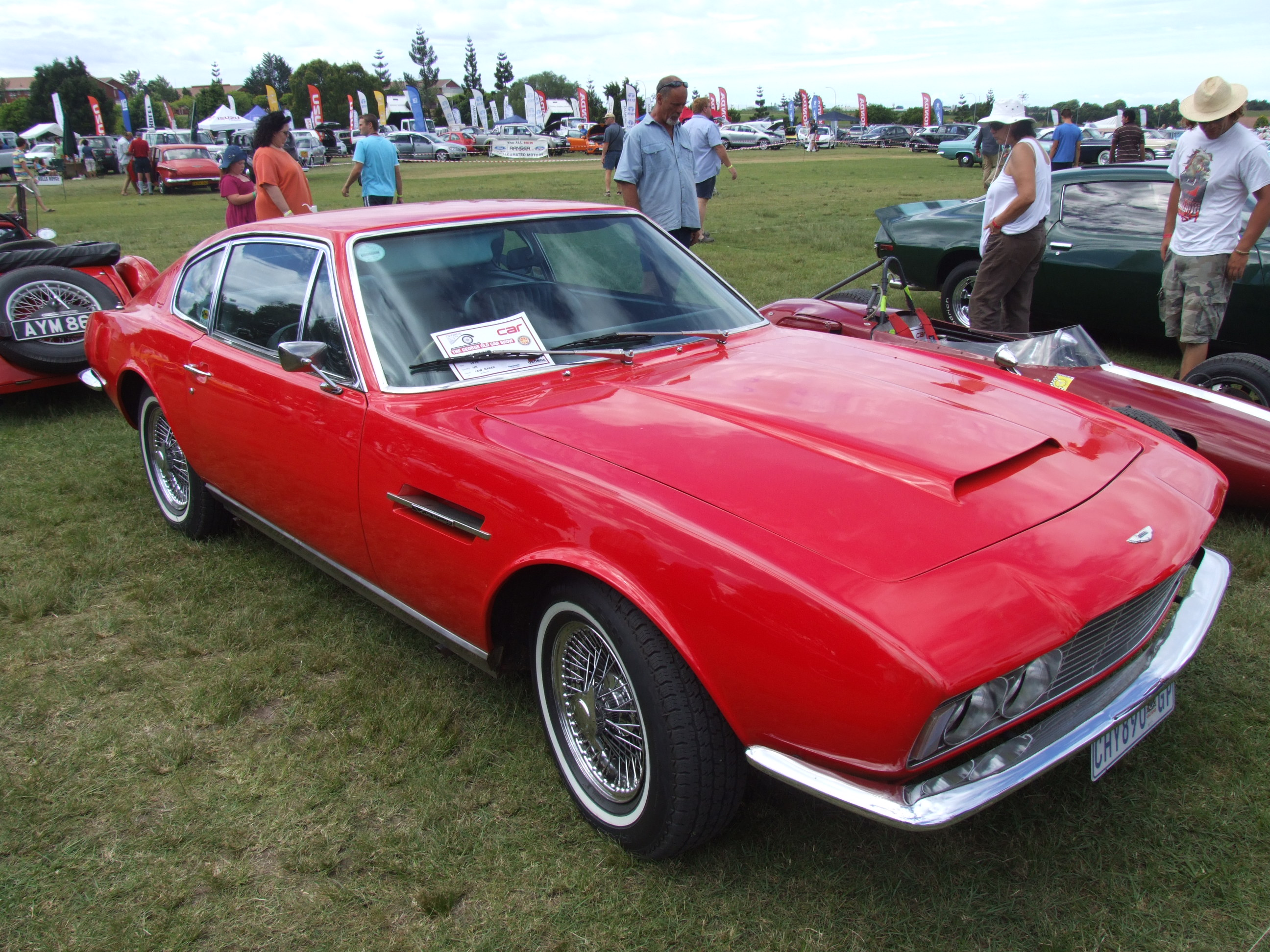 Late 1960's Aston Martin DBS Vantage